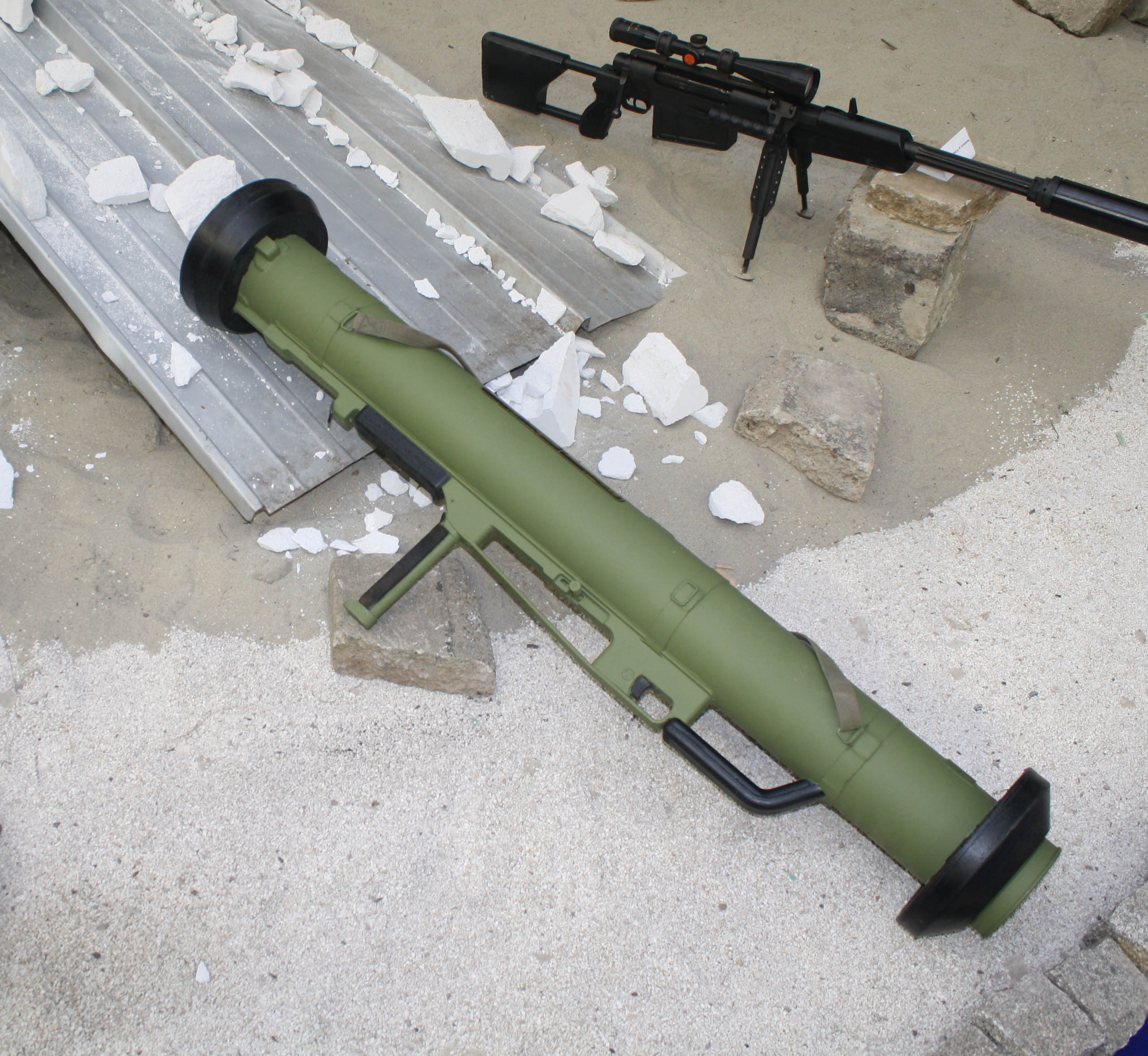 Stršljen AT missile on display at "Partner 2011" military fair.